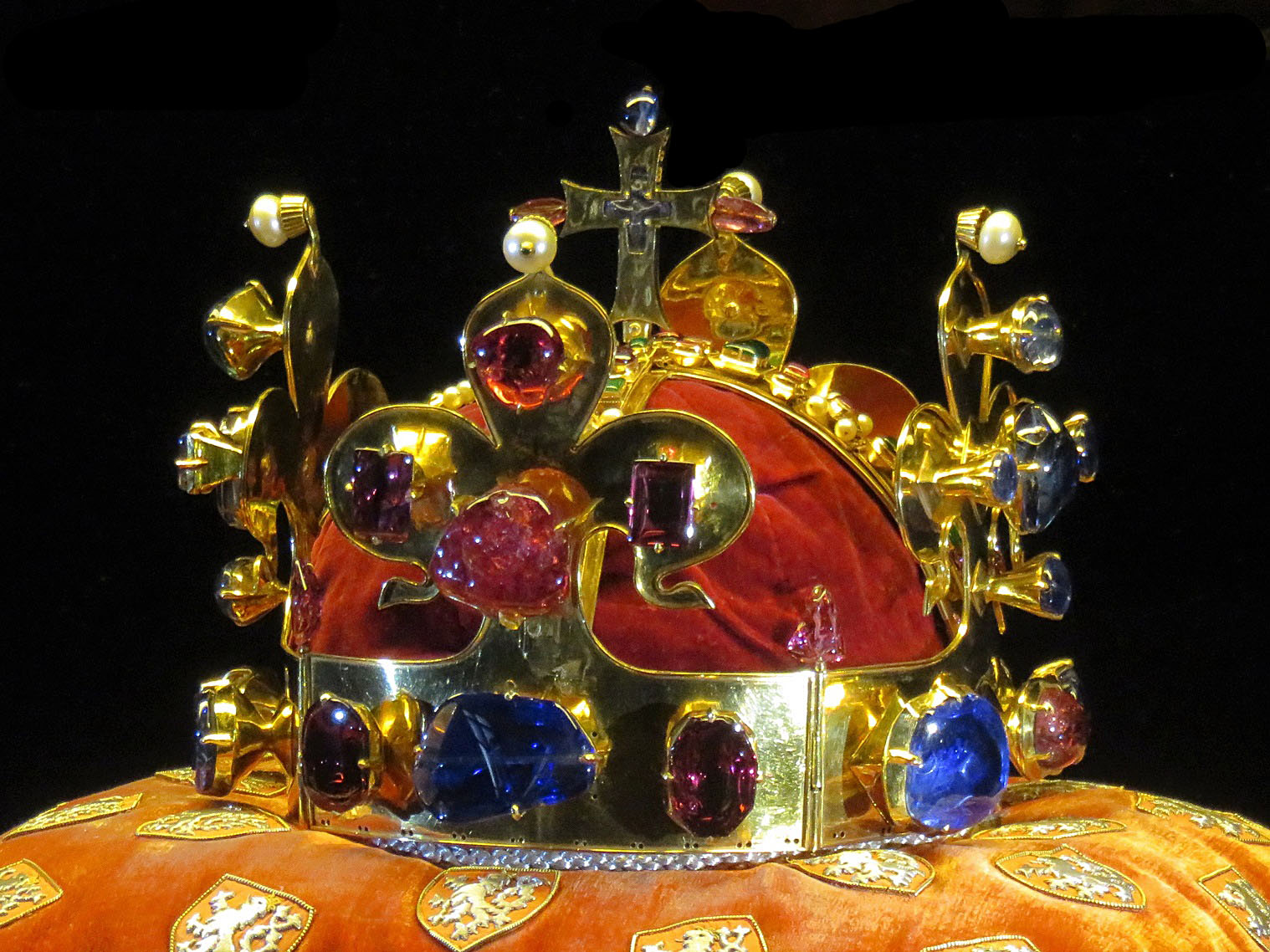 The original Crown of Saint Wenceslas during its exhibition in 2016.